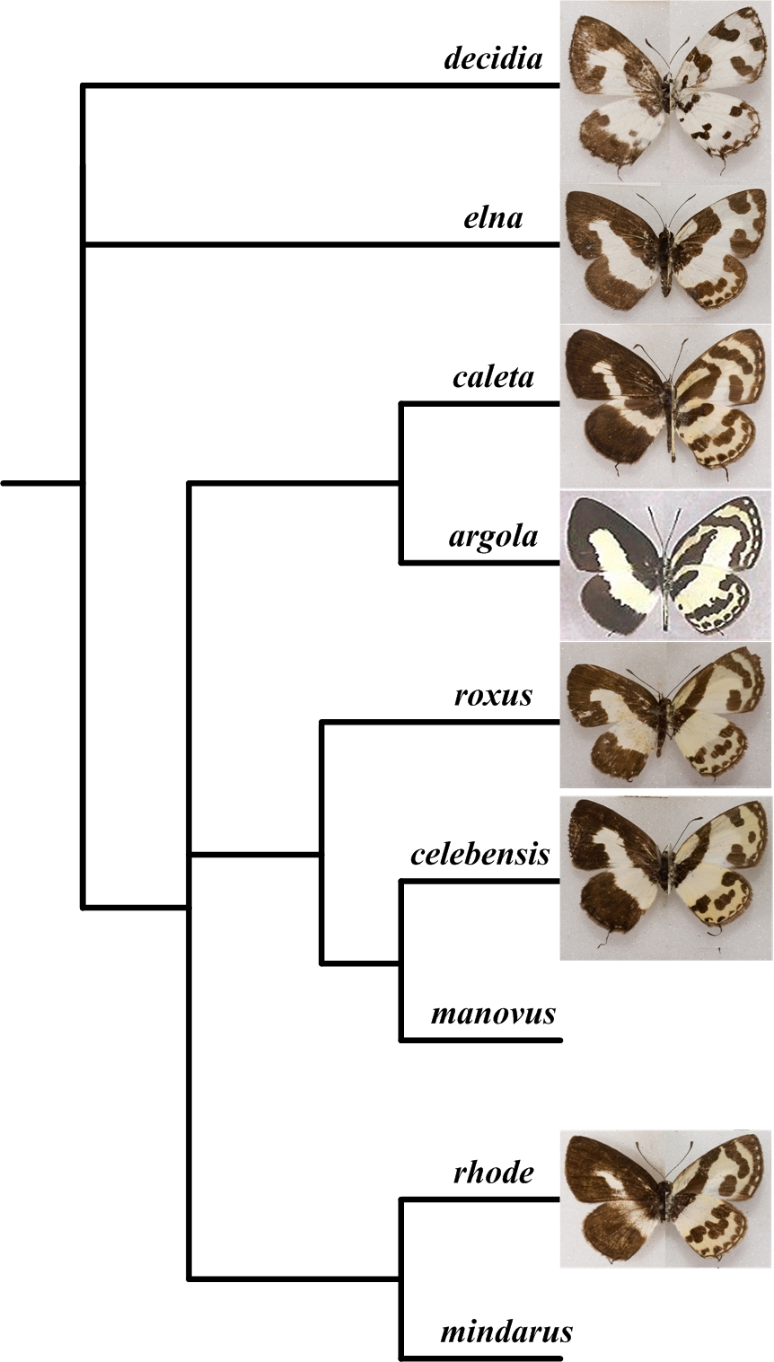 Cladistic analysis of Caleta after Hirowatari, 1993. Alan Cassidy photos.